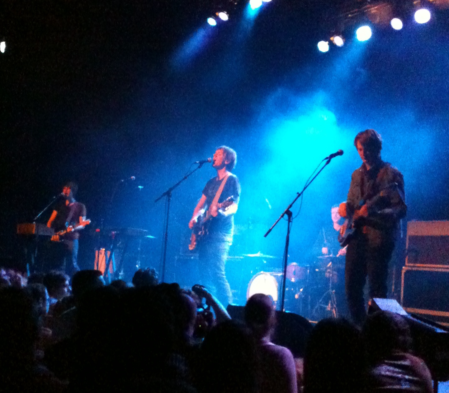 Shearwater in Autumn Falls, Brussels Belgium